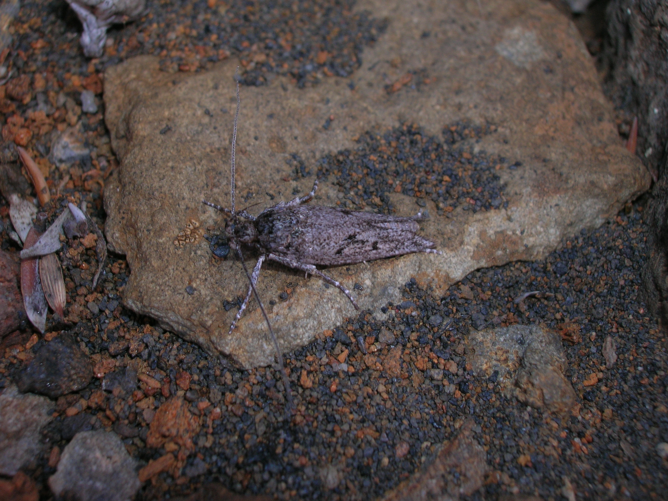 Dubautia menziesii (habitat and flightless moth Thyrocopa apatela). Location: Maui, South Rim Haleakala National Park